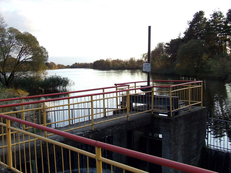 Staniūnai pond, Panevėžys district, Lithuania.